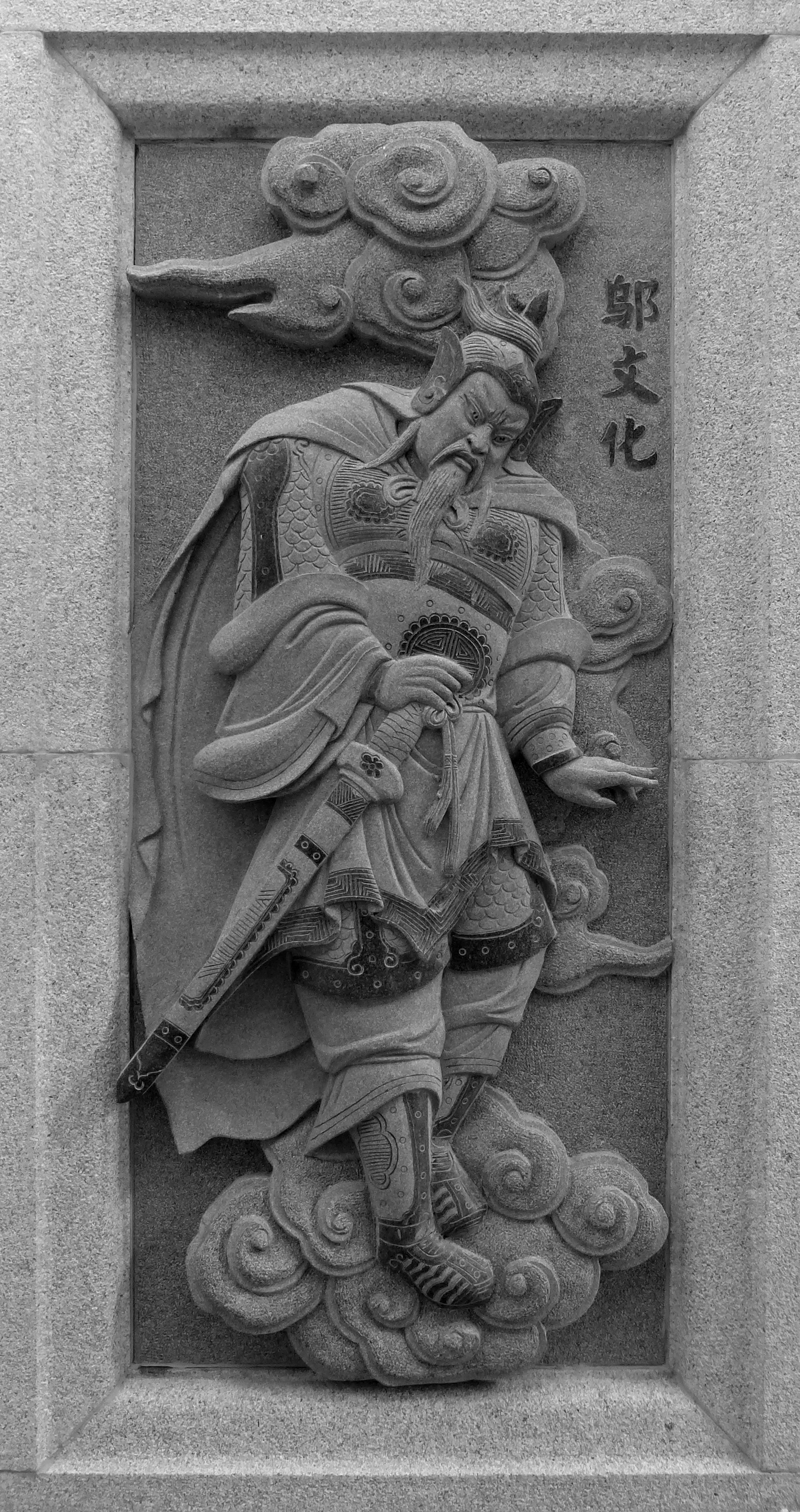 116 Wu Wenhua, Investiture of the Gods at Ping Sien Si, Pasir Panjang, Perak, Malaysia Photograph from the Ping Sien Si Temple in Perak, Malaysia taken by Anandajoti.